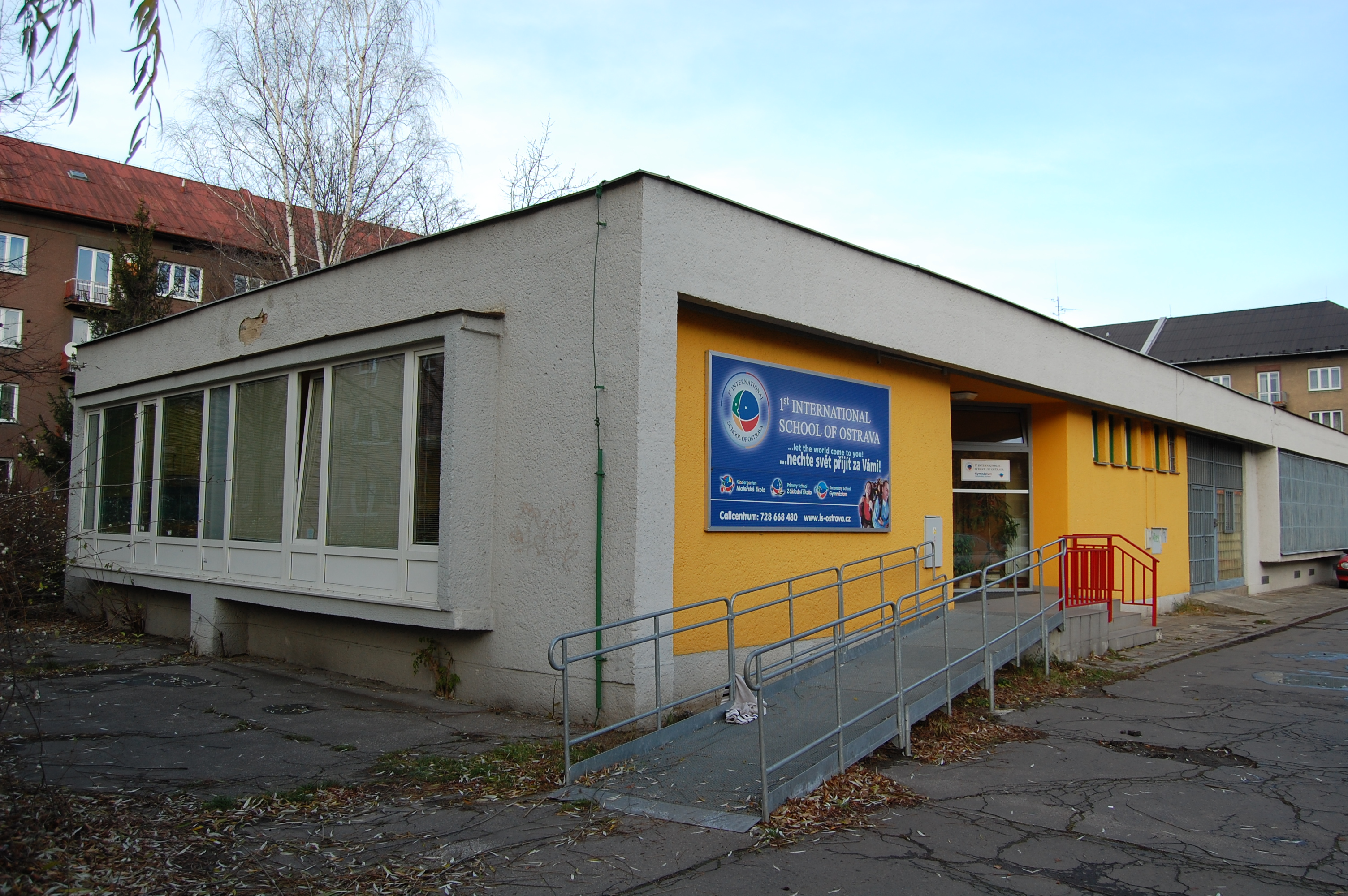 1st International school of Ostrava, Czech republic.